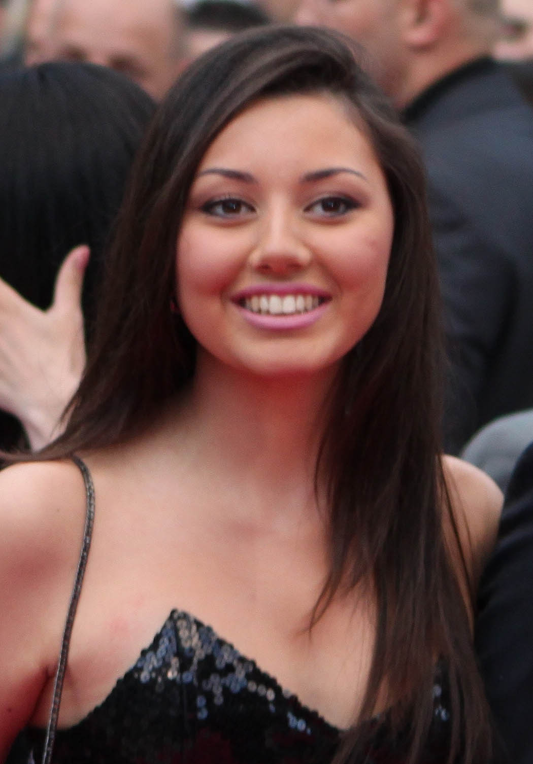 Safura Alizadeh representing Azerbaijan at Eurovision Song Contest 2010 during a Welcome Party at City Hall in Oslo, Norway.